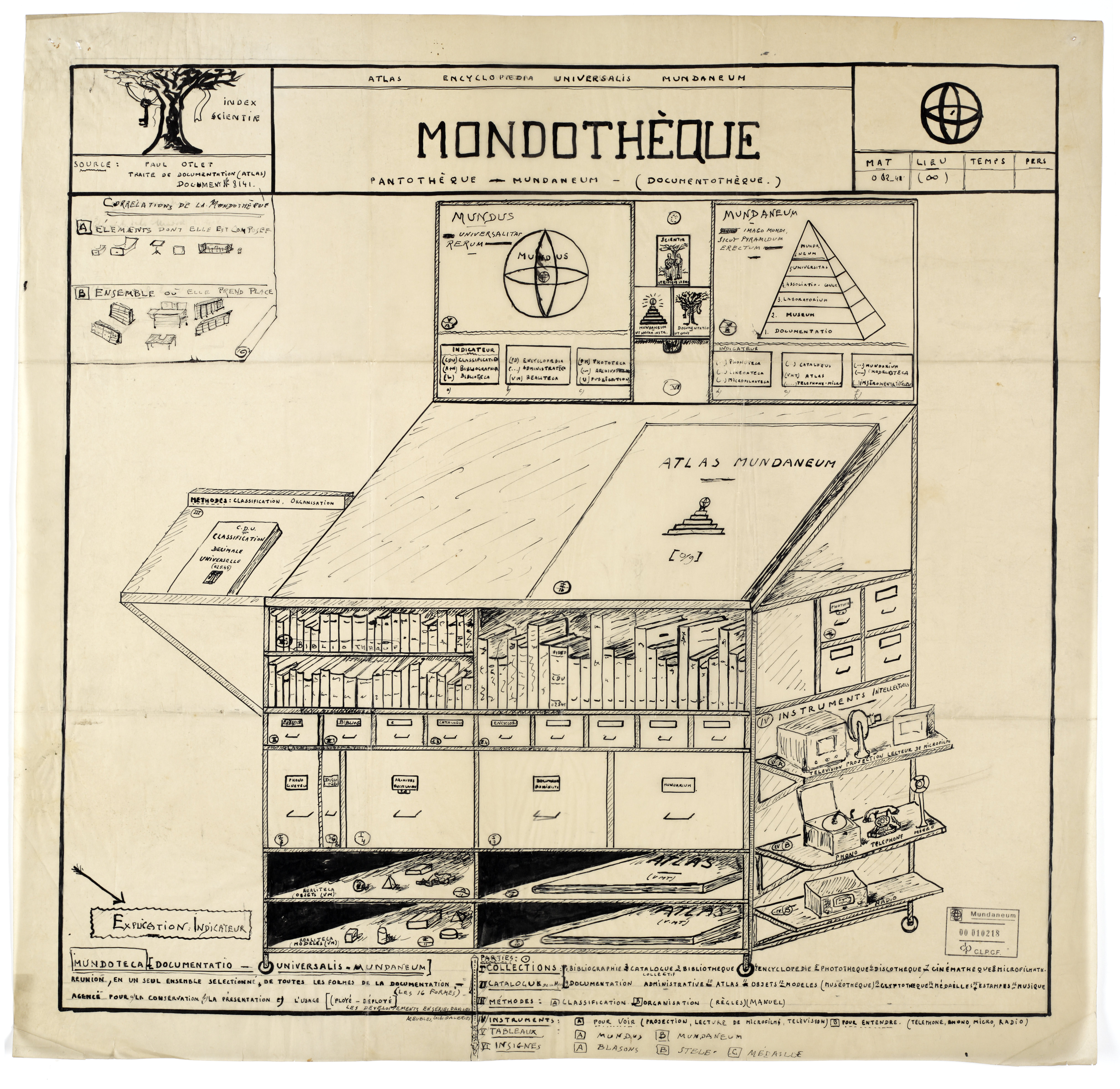 All sources of documentation are stored in a single cabinet: the Mondotheque